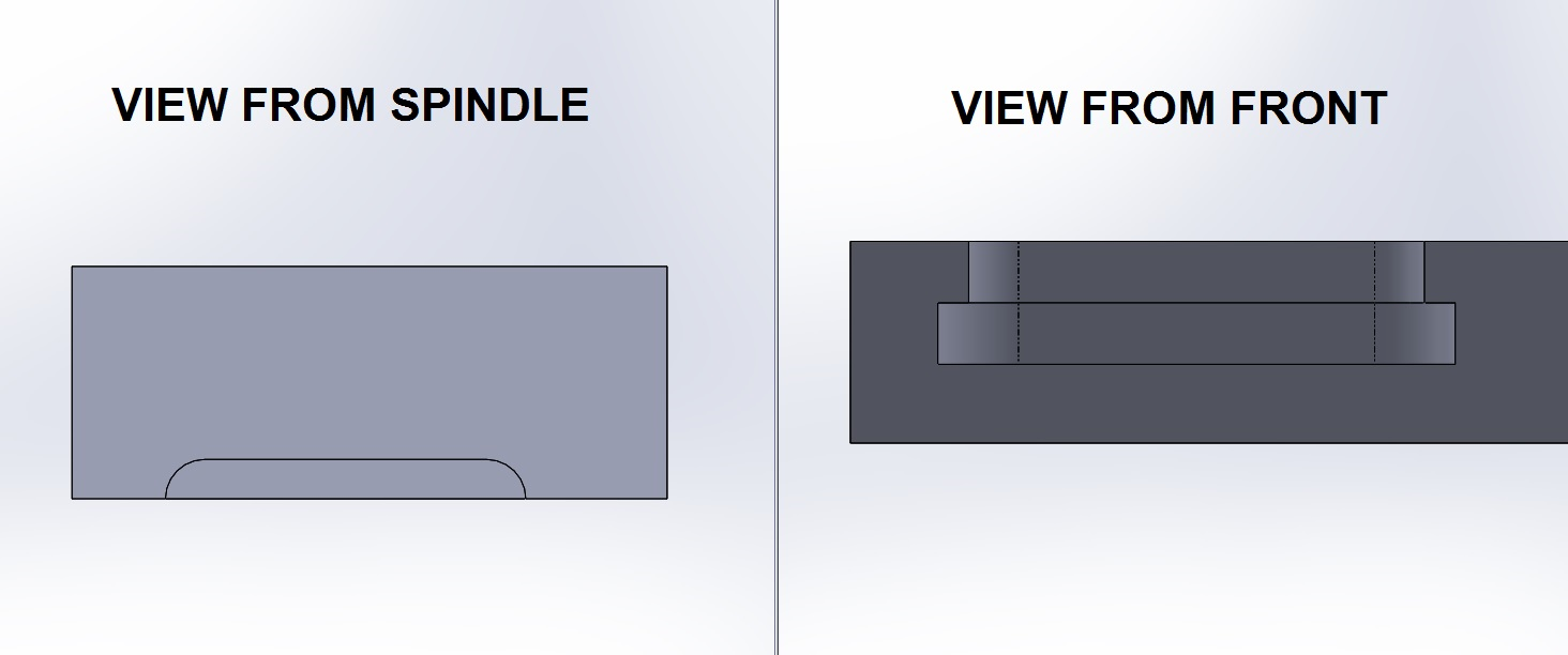 This image shows that when viewed from the spindle of a mill certain features are not visible but are required to be cut from that dirrection